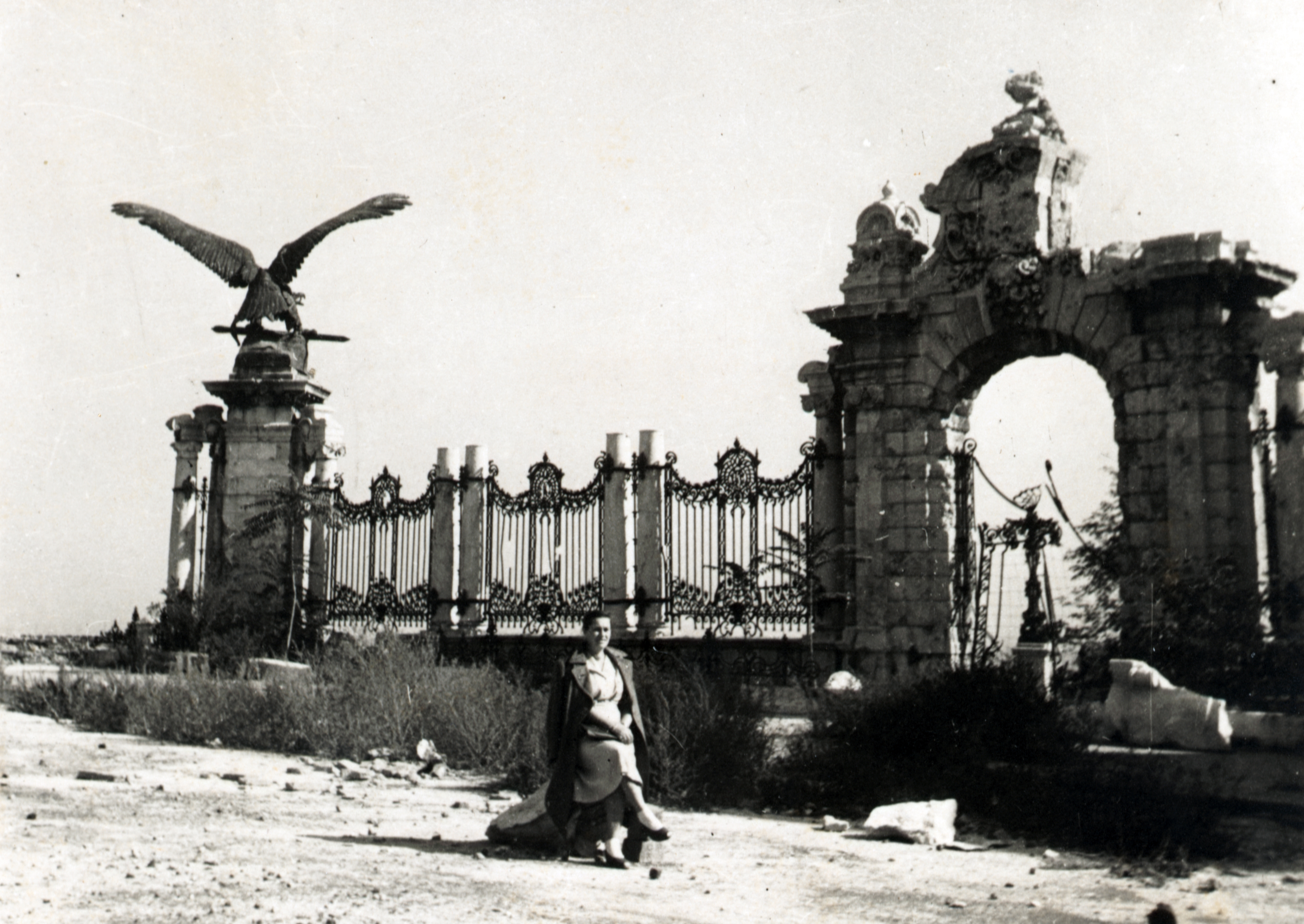 Tags: Turul sculpture, second World War, ruins